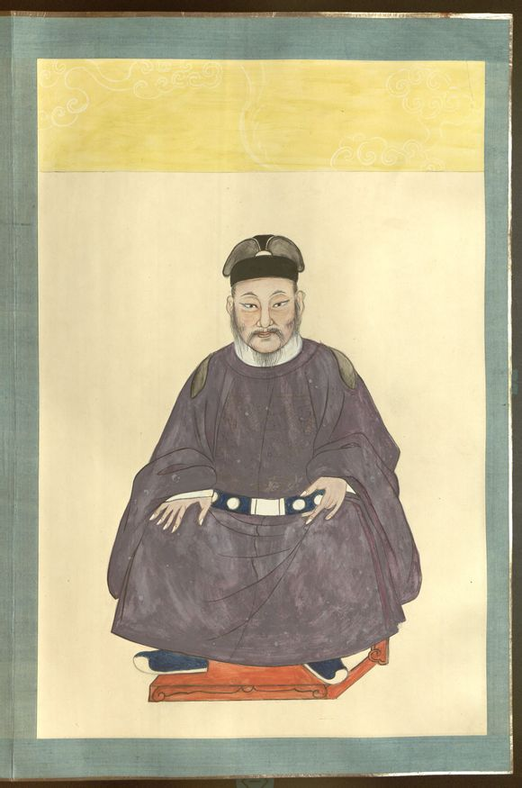 Mu Qin, a local commander of Lijiang